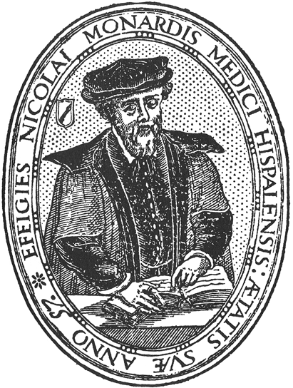 Portrait of Monardes